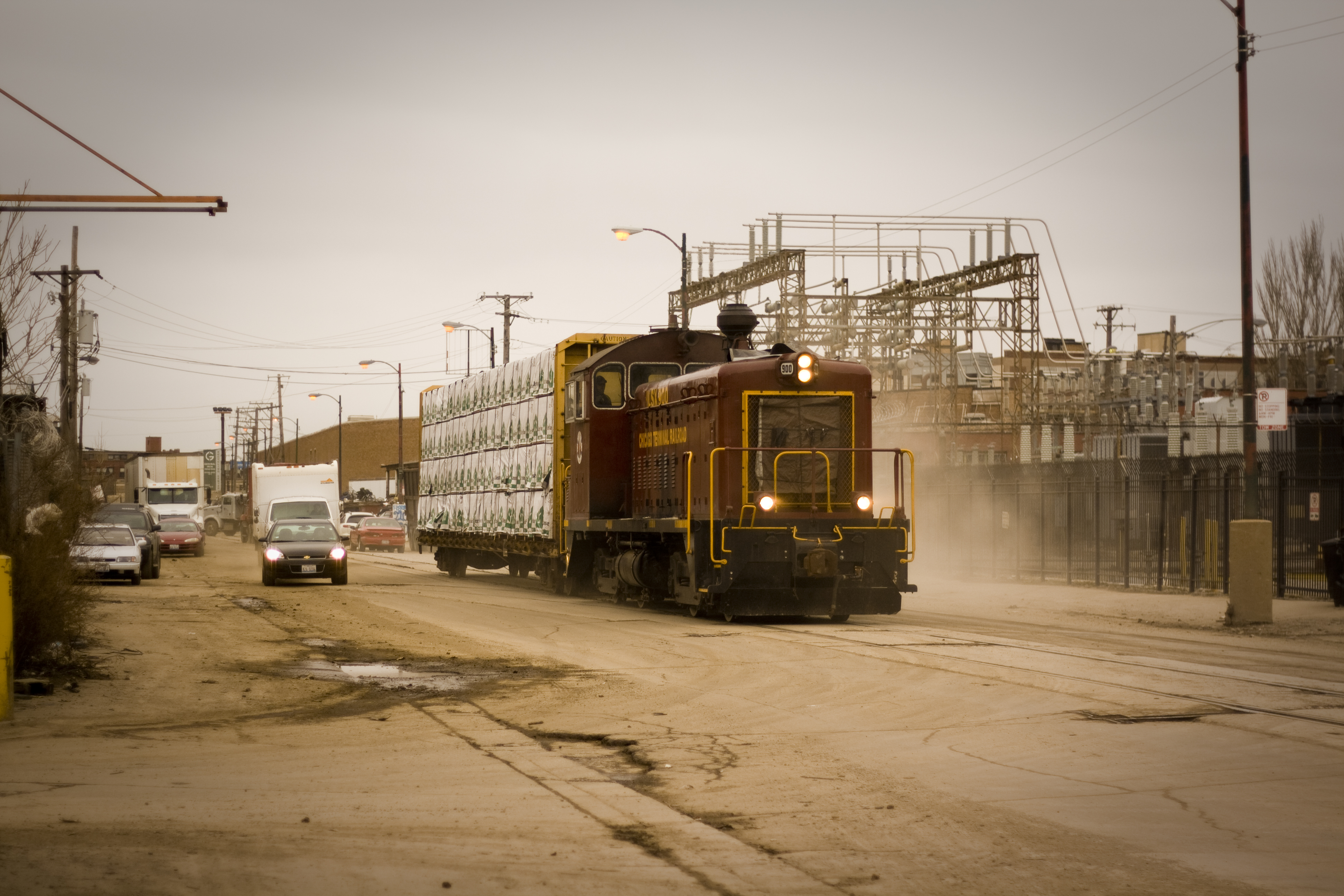 ILSX 900 Highballs Kingsbury Avenue, kicking up lots of dust, and with an unmarked police car pulling up alongside. These guys move petty fast along this section.